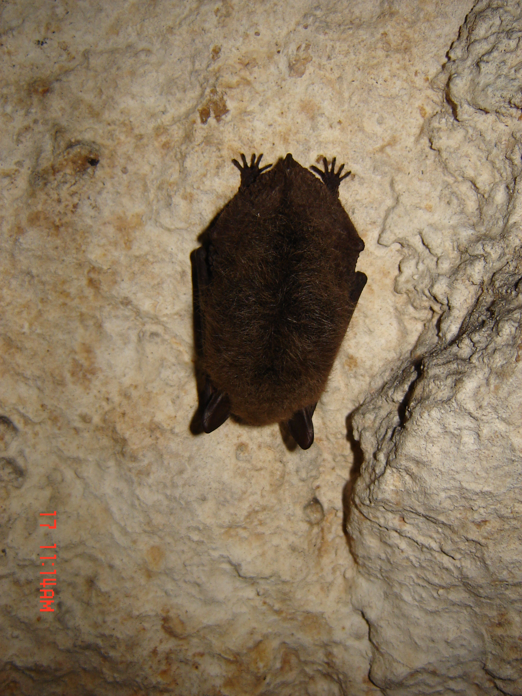 Myotis mystacinus in hibernation.